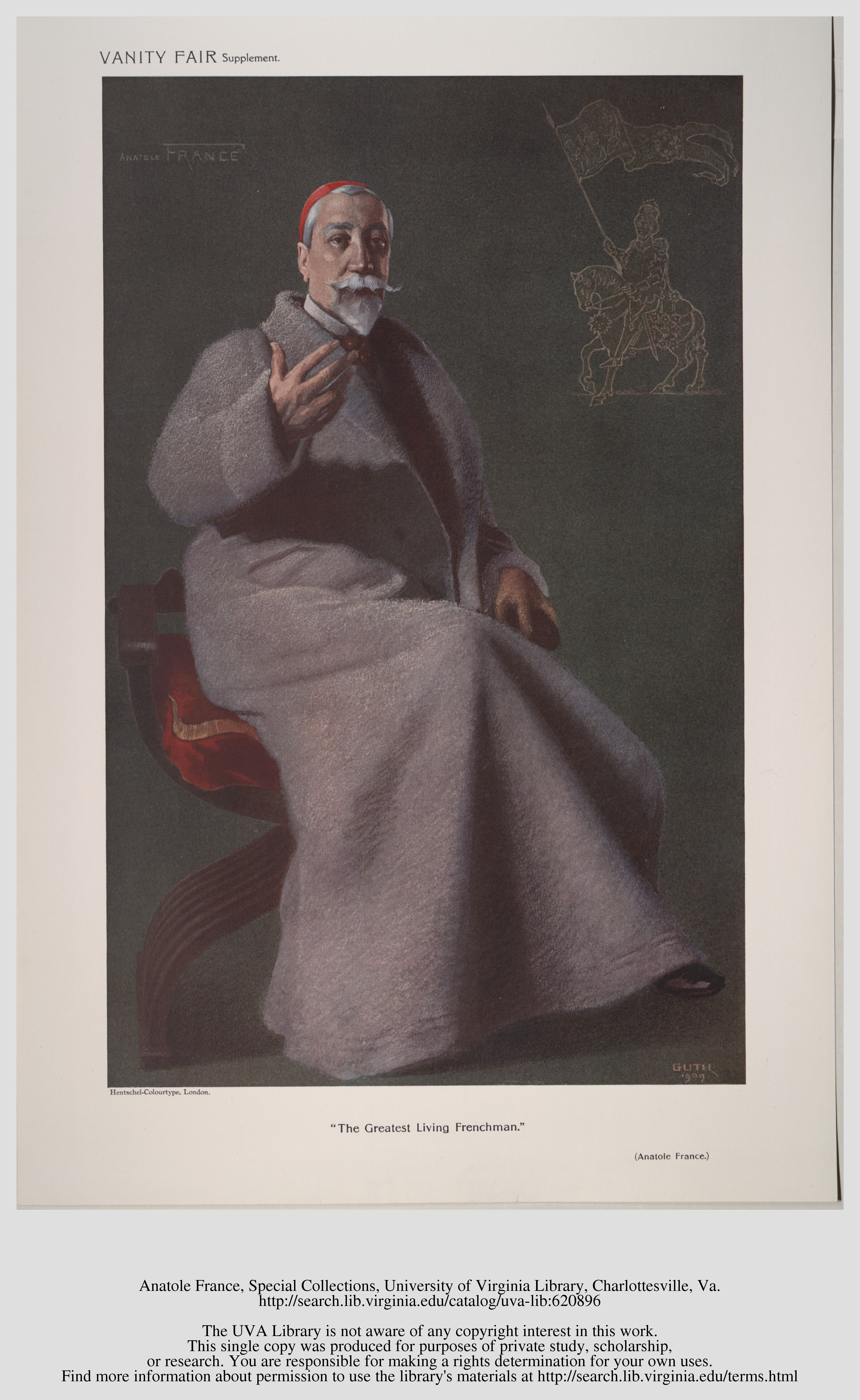 Men of the Day No.1184: Caricature of M Anatole France. Caption reads: "The Greatest Living Frenchman"